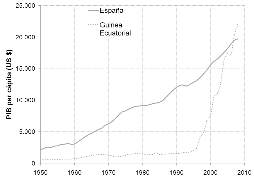 Comparative GDP per capita: Spain vs. Equatorial Guinea (PPP)